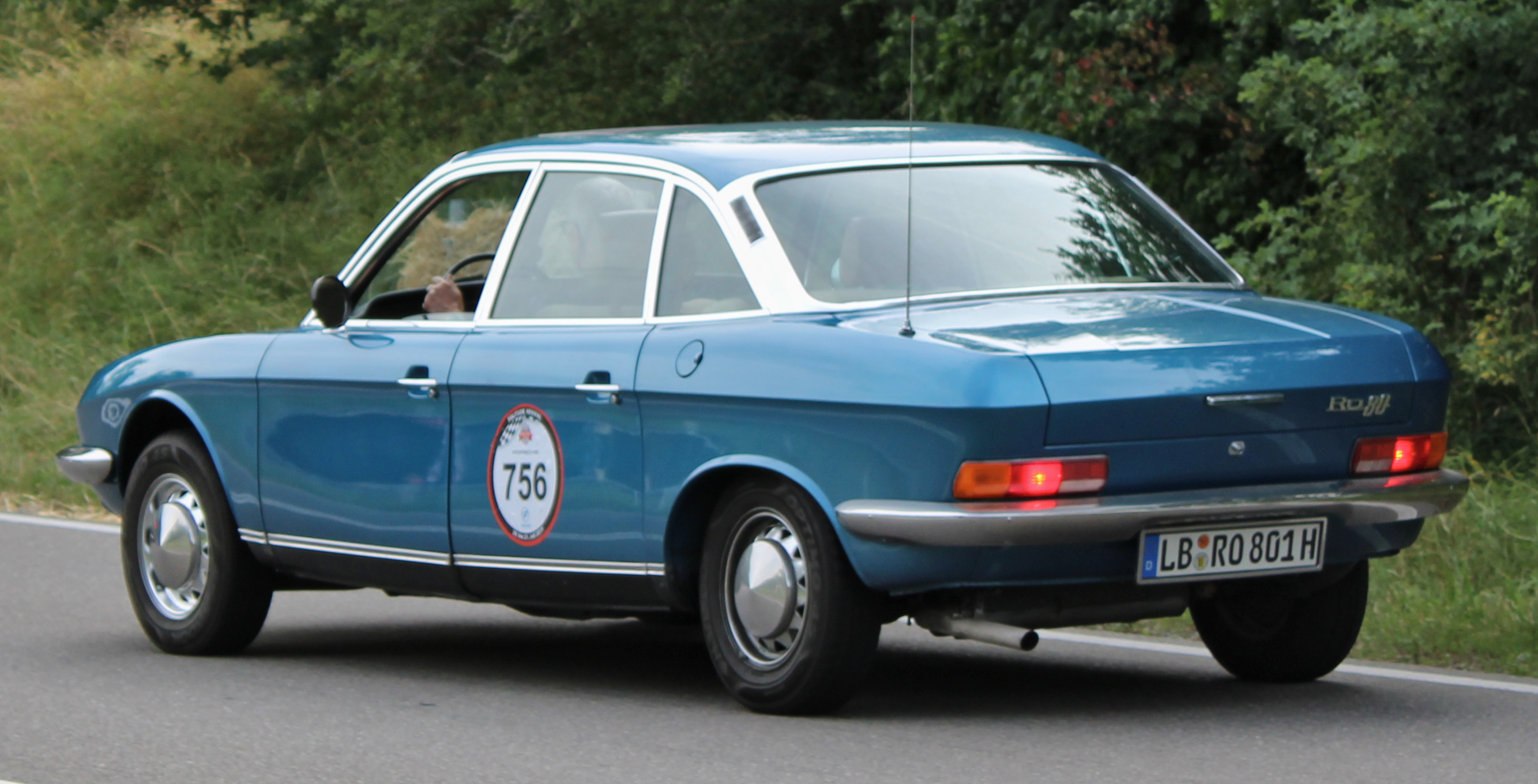 NSU Ro 80 (1974) at Solitude Revival 2019